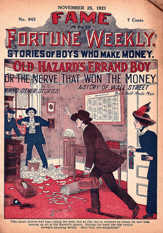 cover of magazine: "Fame and Fortune Weekly: Stories of Boys Who Make Money" (New York)